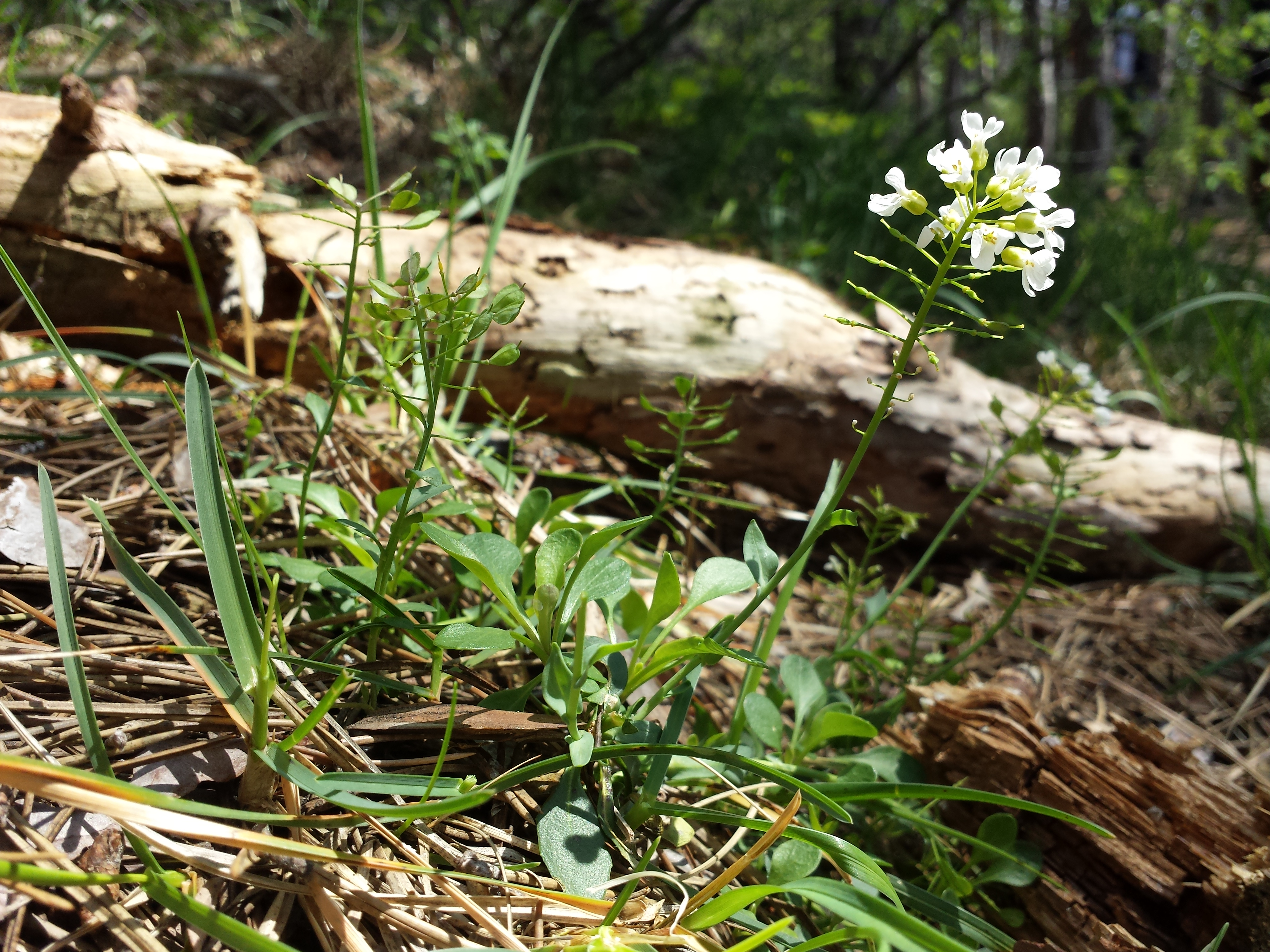 Habitus Taxonym: Noccaea montana ss Fischer et al. EfÖLS 2008 ISBN 978-3-85474-187-9 Location: near Bad Vöslau, district Baden, Lower Austria - ca. 450 m a.s.l. Habitat: wood of Pinus nigra